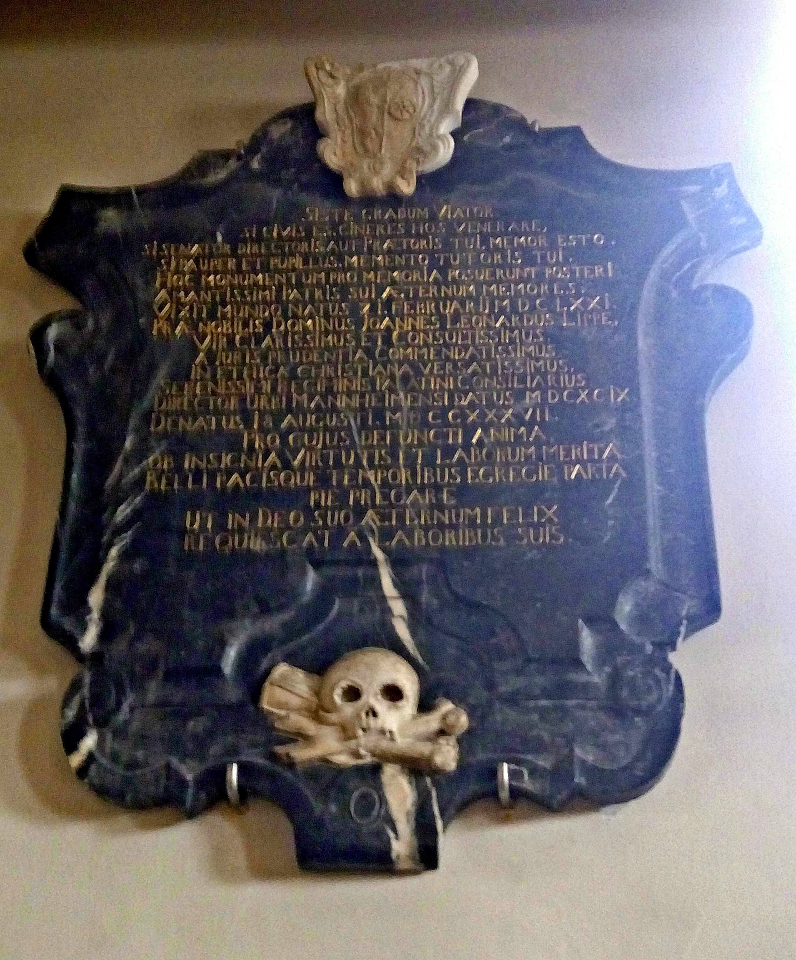 Epitaph Johann Leonhard Lippe, Bürgermeister von Mannheim (+ 1737), St. Sebastian Mannheim